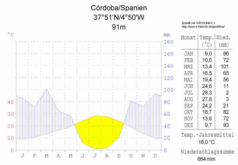 climate chart in the format by Walther and Lieth, metric, °Celsisus and millimeters, made with Geoklima 2.1